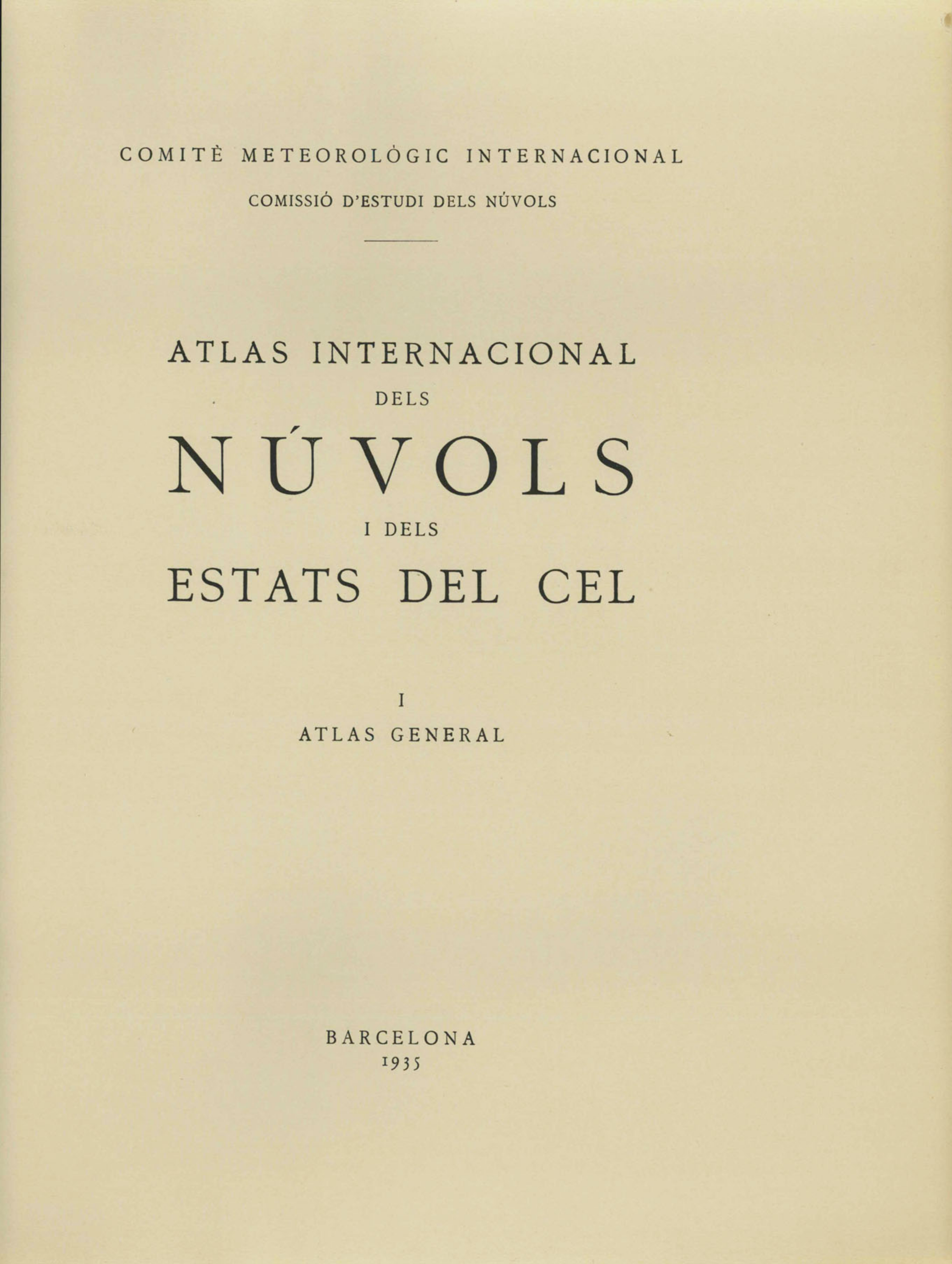 Front cover for the Catalan edition of International of Clouds and States of the Sky (1935)